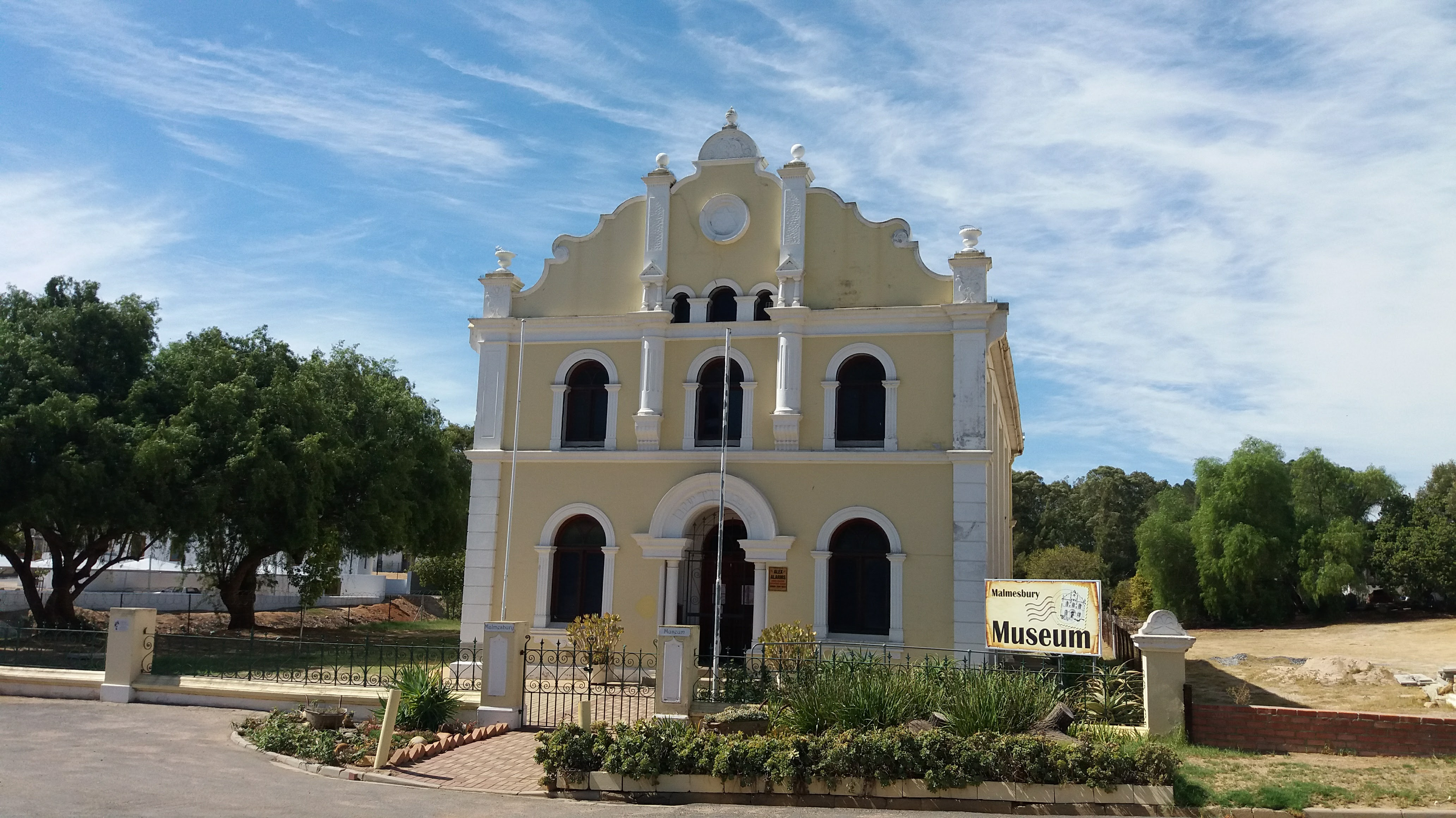 Malmesbury Museum, formerly a synagogue This media shows a South African Protected Site with SAHRA file reference 9/2/060/0016.